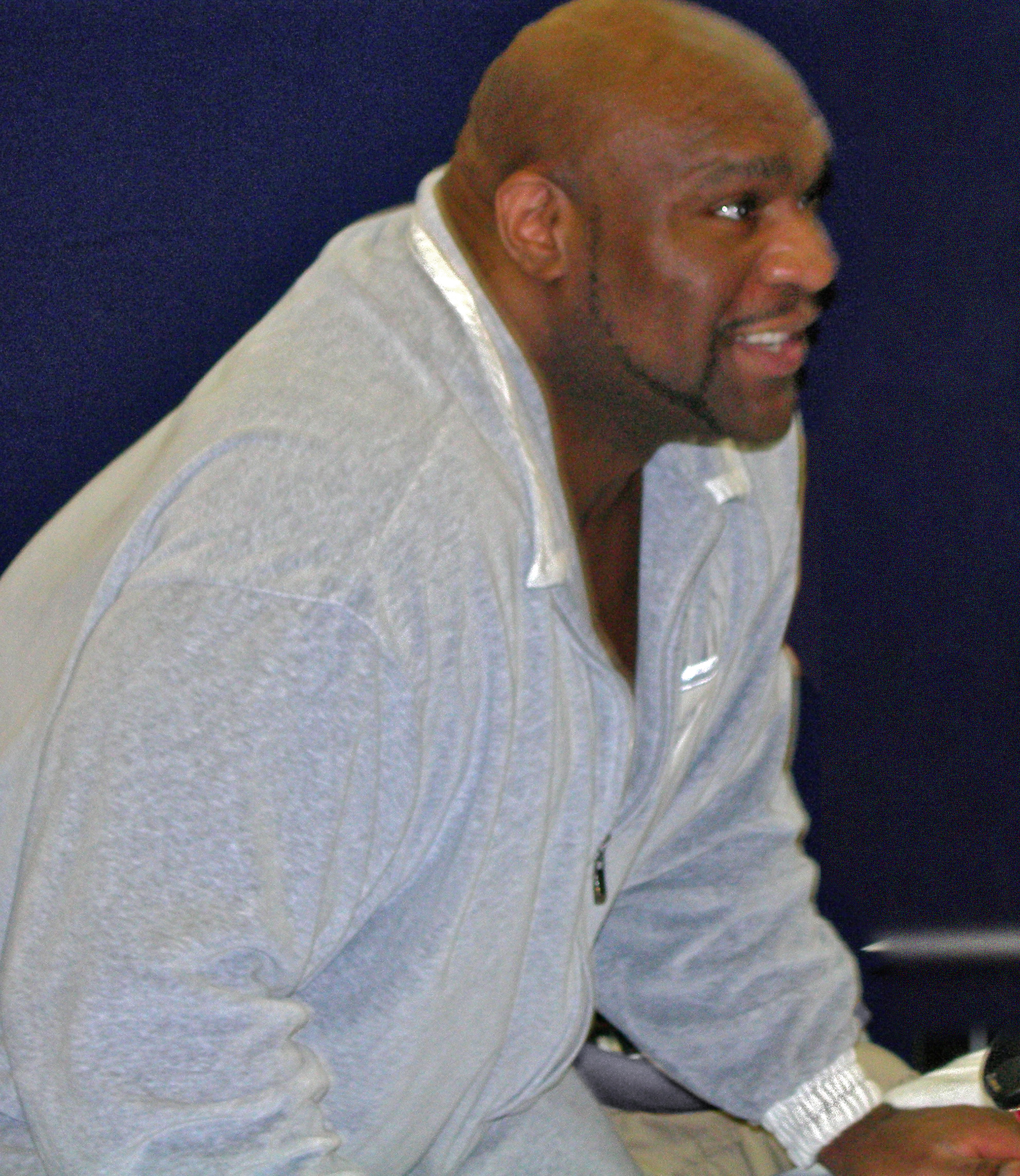 Today I was in the Yokota Base and happnened to see Bob Sapp's Event.